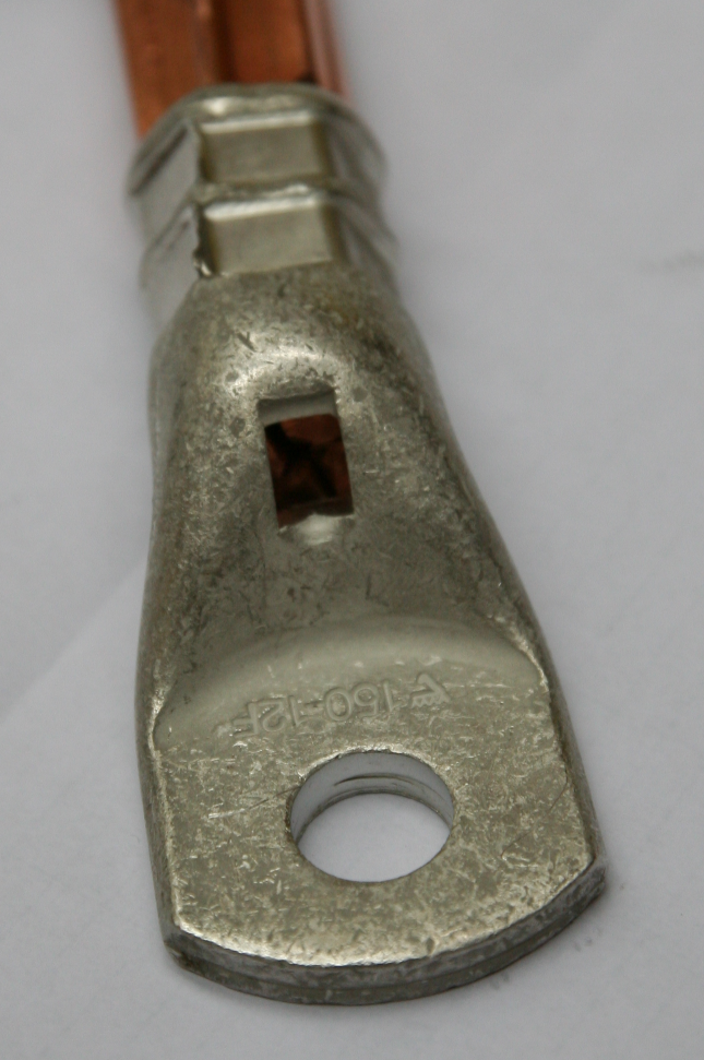 A cable lug to connect a 150mm² cable with a M12 size bolt.